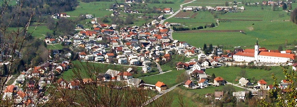 Mekinje from Stari grad above Kamnik